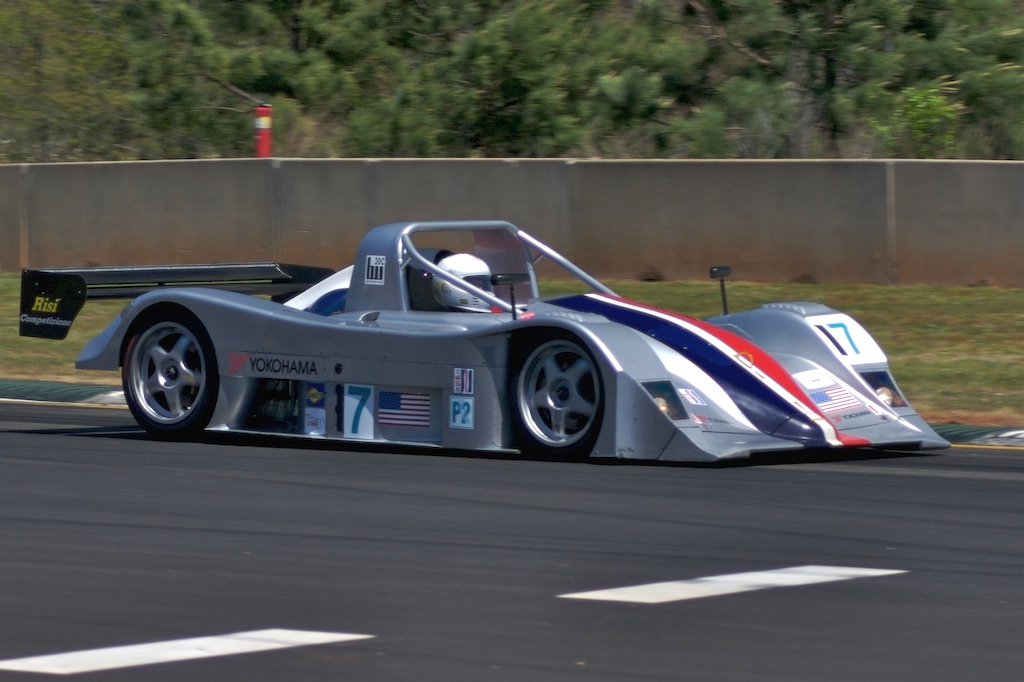 A Lola B2K/40 from a Historic Sportscar Racing event.